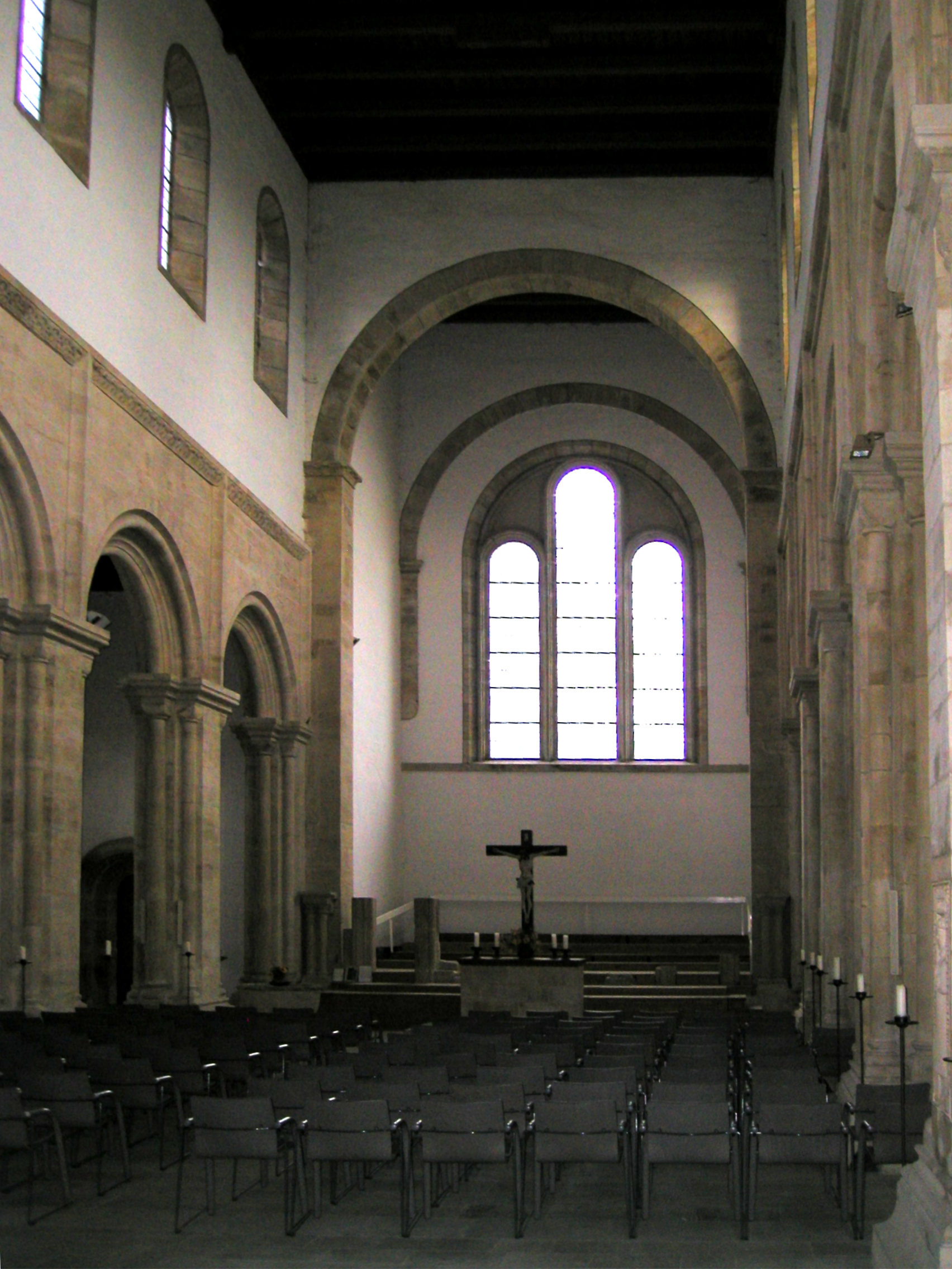 The choir of the monastery´s church in Thalbürgel, Thuringia